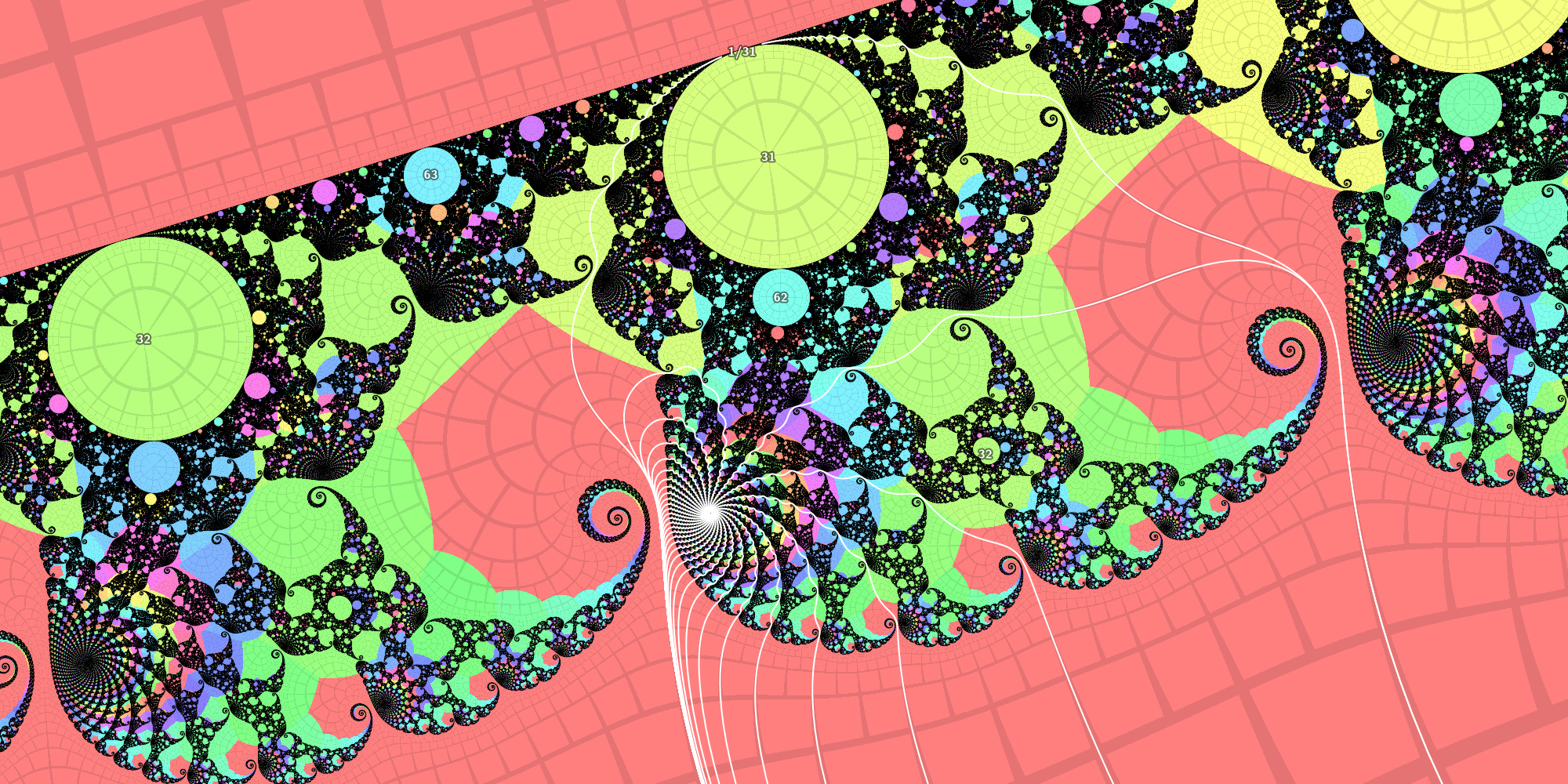 Mandelbrot set - wake 1 over 31 with external rays landing on the root point and principal Misiurewicz point